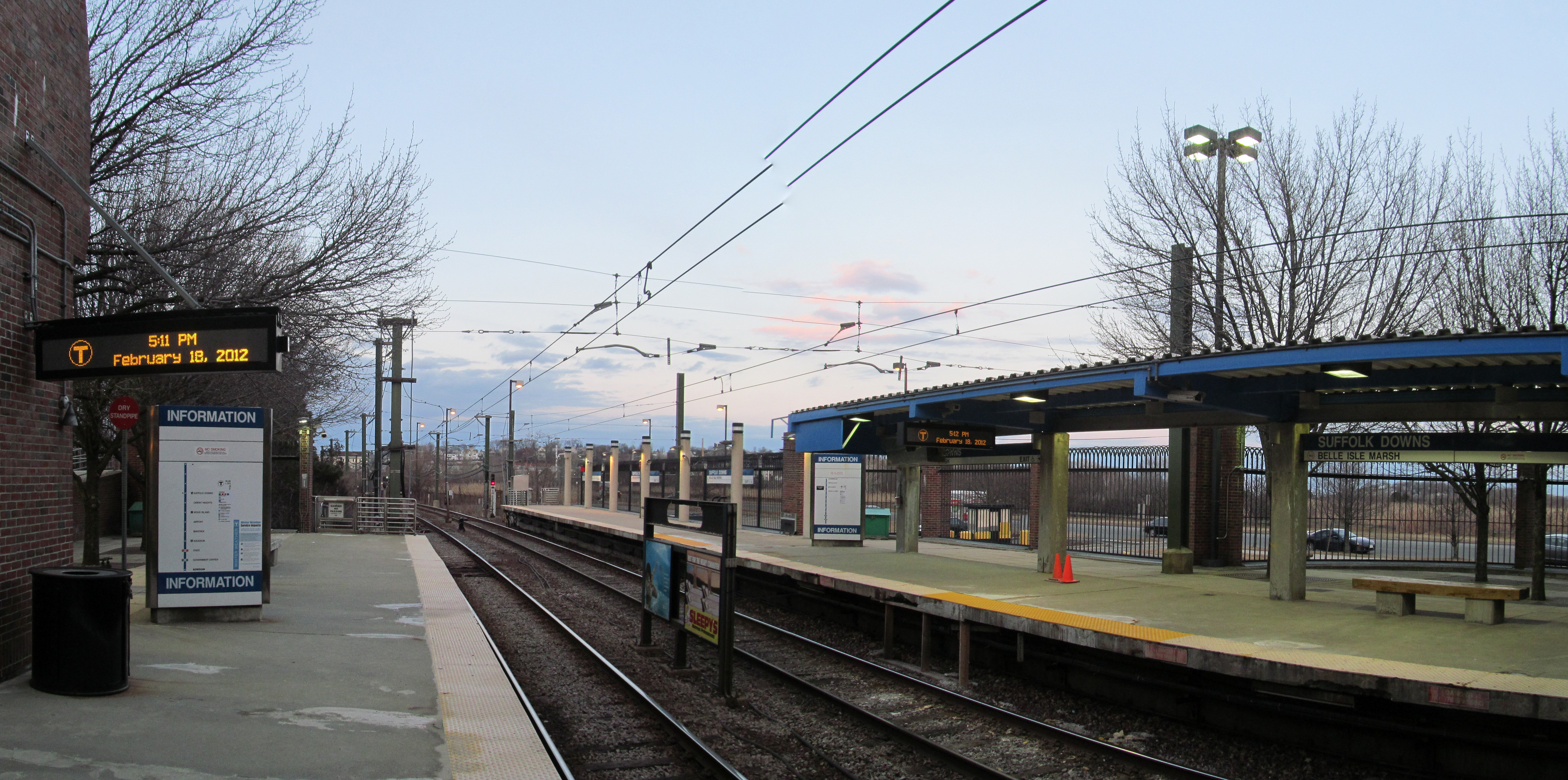 Facing outbound on the platform at Suffolk Downs. The apparent break in the wire is an artifact created by parallax during the taking of photos for the panorama.